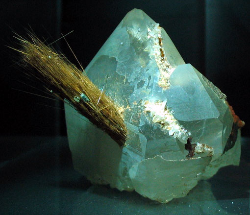 Tuft of brown needles of rutile protruding from a quartz crystal, from Brazil. Photograph taken at the Natural History Museum, London.